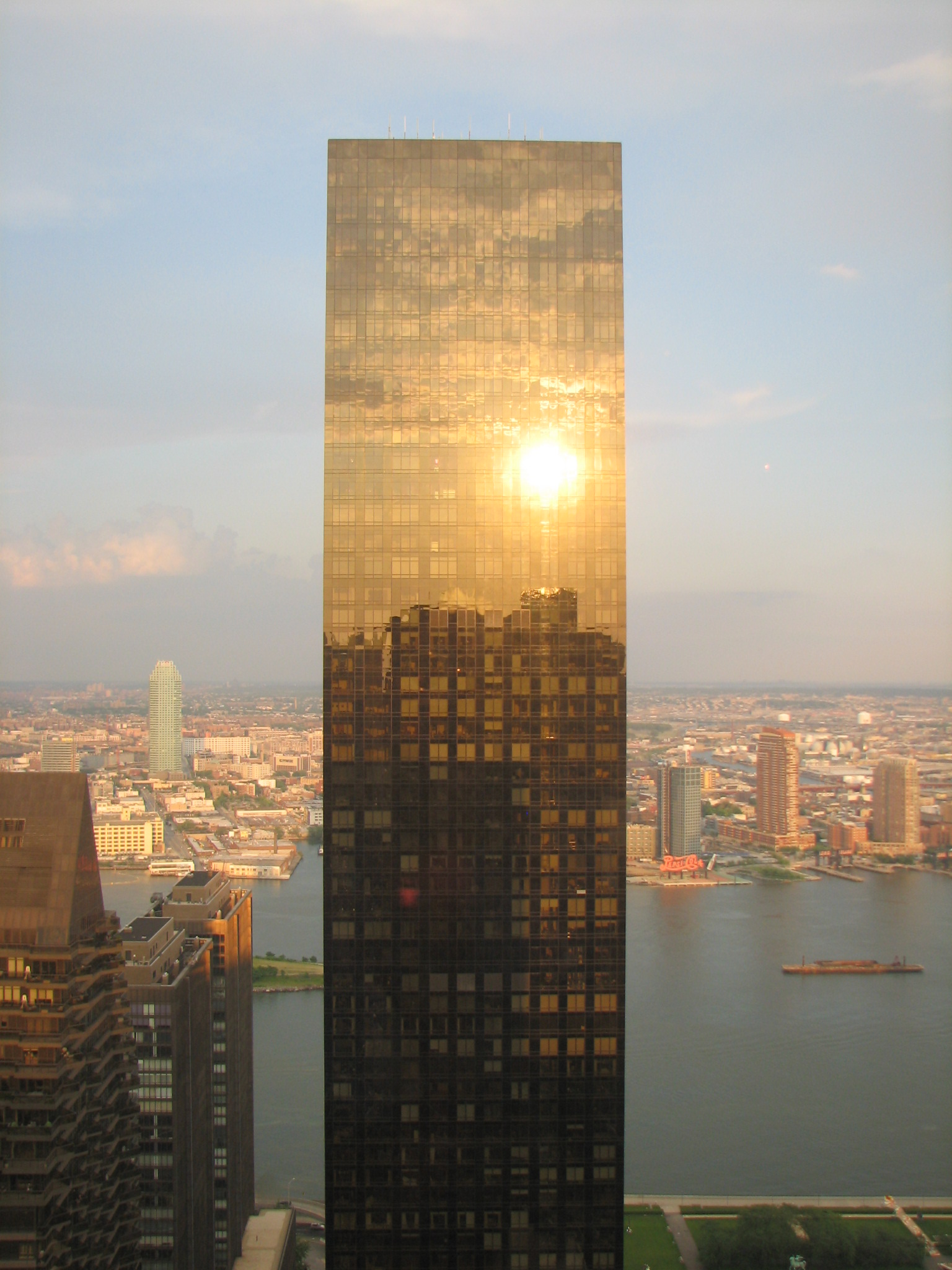 The view from my old office at 1 Dag Hammerskjold Plaza